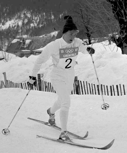 Barbro Tano, Grenoble Olympics